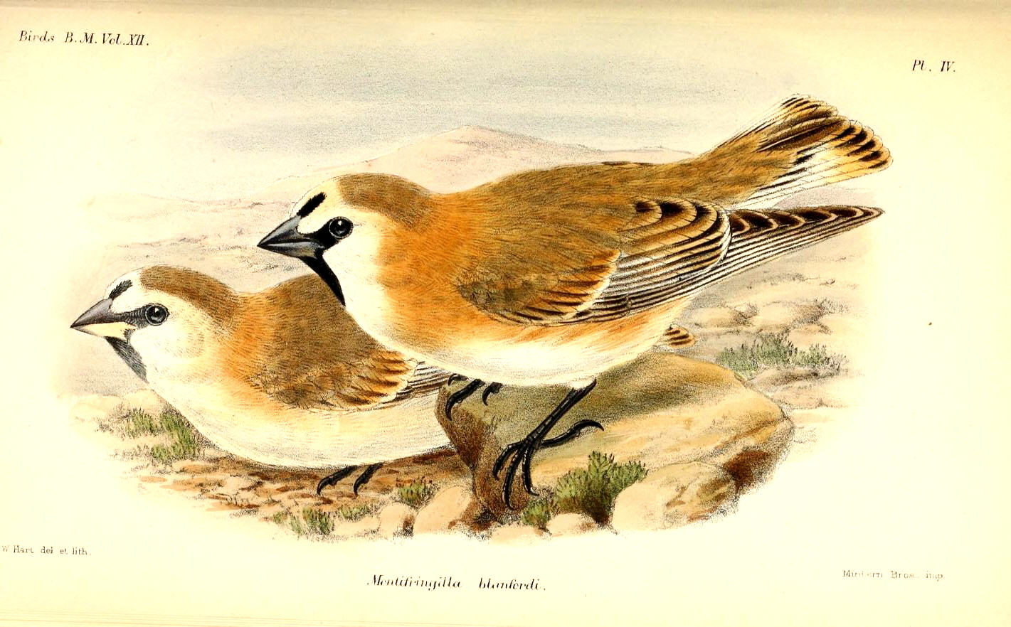 Plain-backed Snowfinch